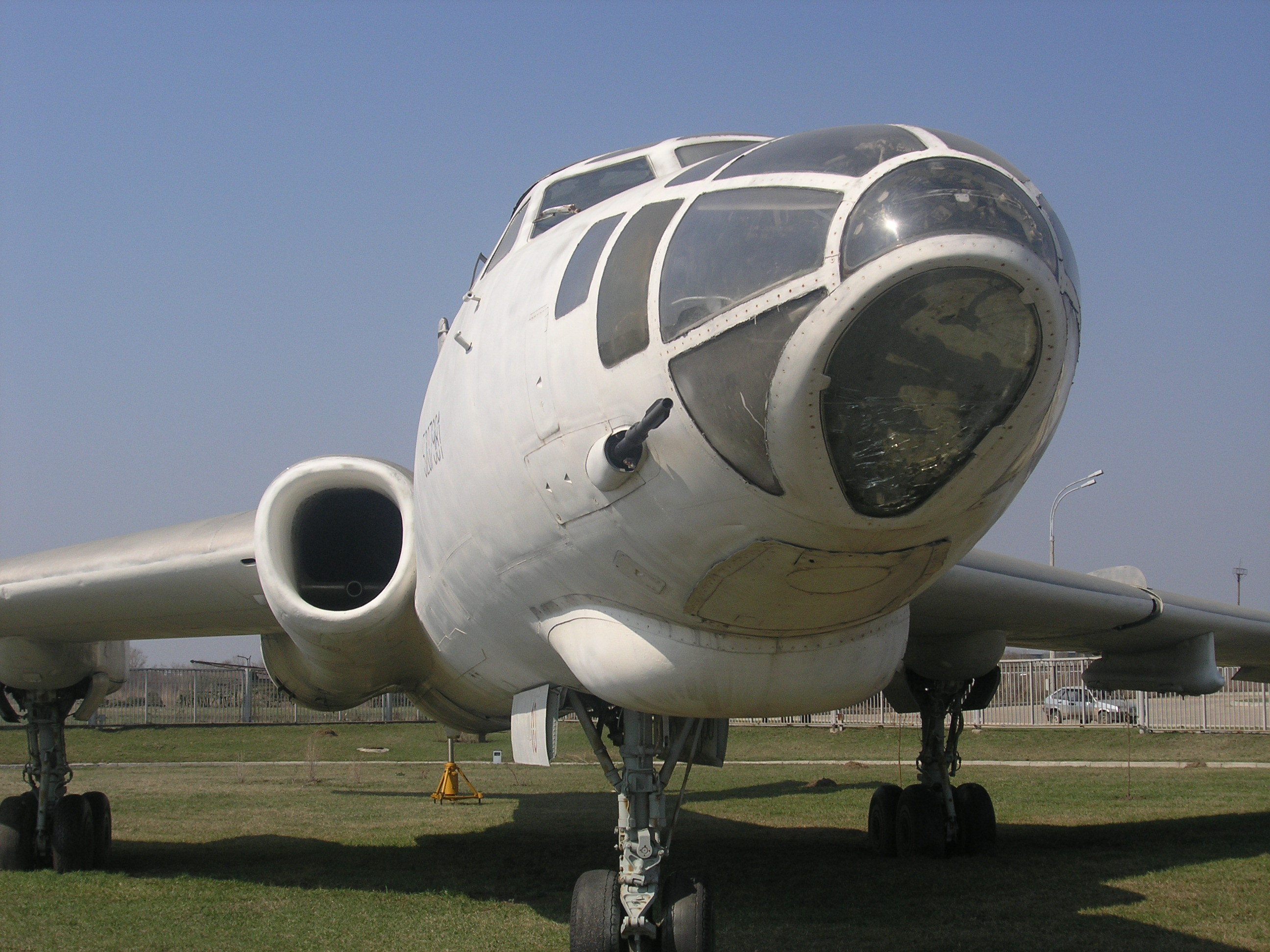 Tu-16, technical museum, Togliatti, Russia